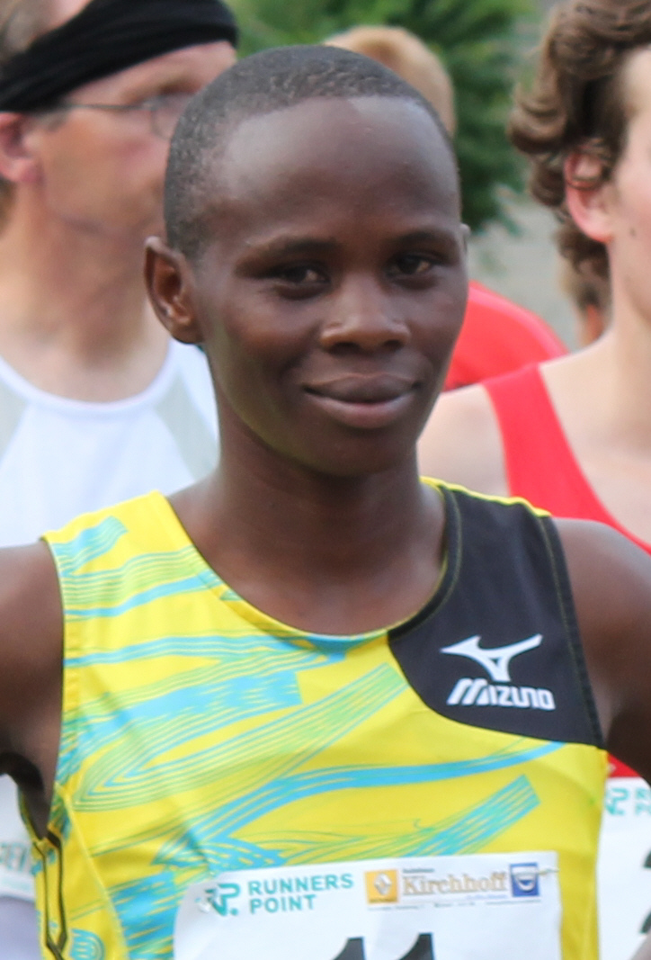 Tabitha Wambui Gichia 2013